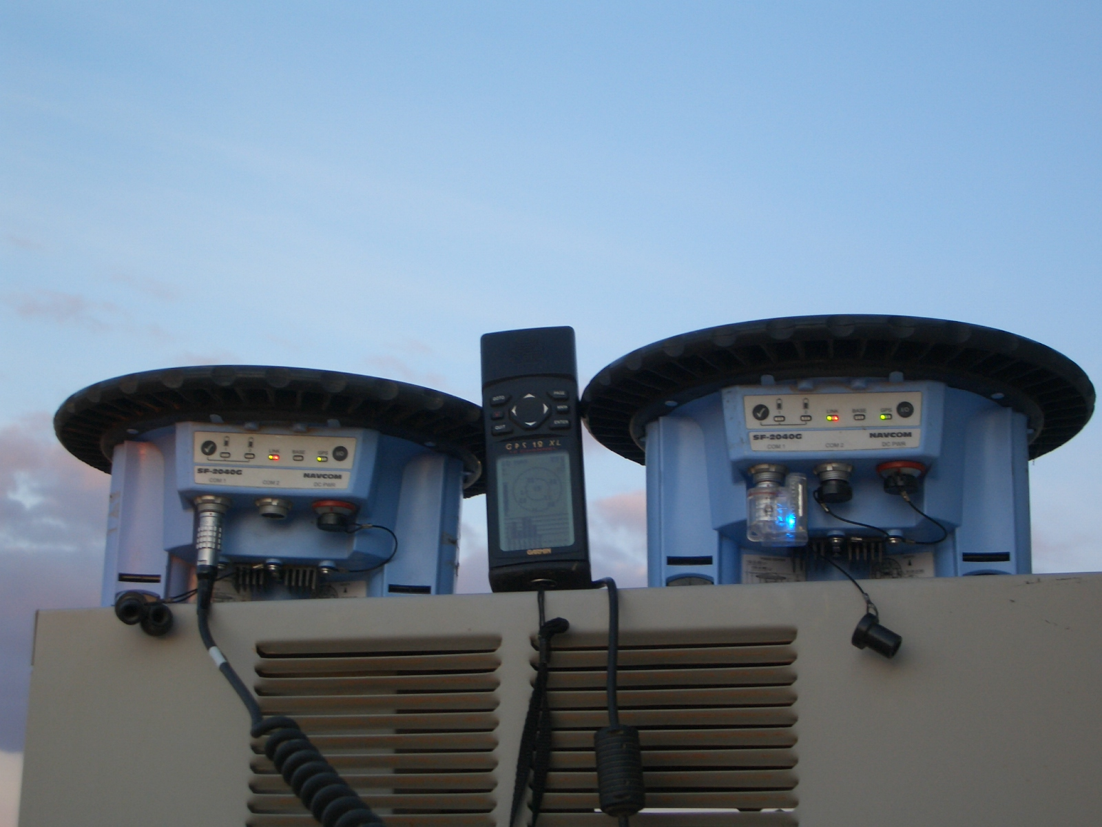 Two Navcom SF-2040G StarFire GPS receivers, along with a Garmin 12XL handheld. The Navcom on the right is using a Bluetooth serial adaptor.